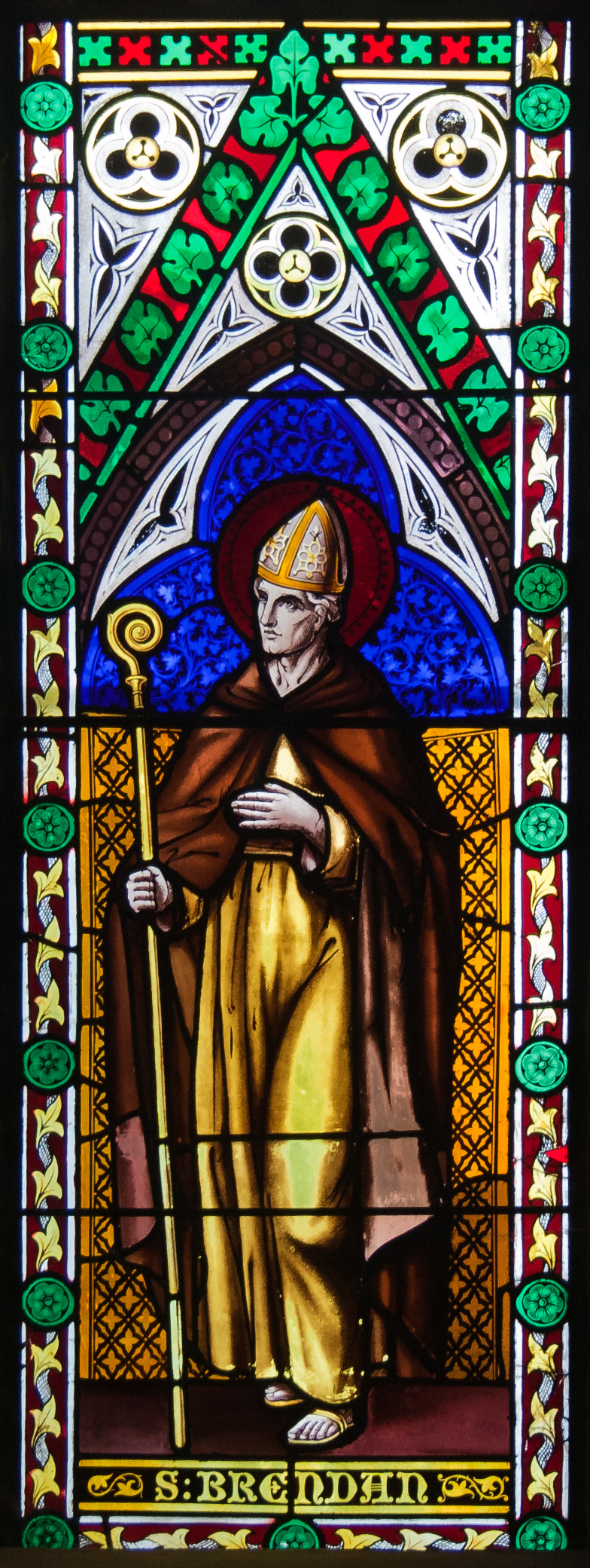 Detail of the east window by Frederick Settle Barff (1823–1886), depicting Saint Brendan. Frederick Settle Barff (1822–1866) Description scientist and chemiststained-glass artist / chemistDate of birth/death 6 October 1822 11 August 1866 Location of birth/death Hackney BuckinghamWork period1852–1864Work location Liverpool, DublinAuthority control : Q5498716 VIAF: 315566424 GND: 1069802859 creator QS:P170,Q5498716